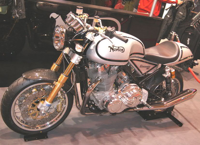 Norton Command 961 Sport